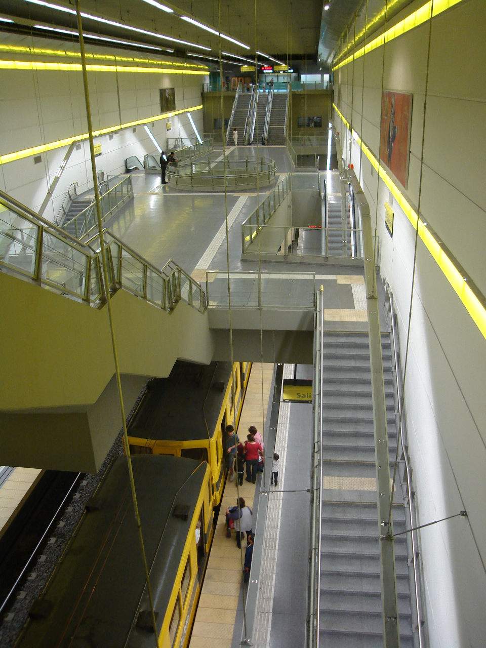 View of the Humberto Primo station on the new line H of the underground network in the City of Buenos Aires on inauguration day.